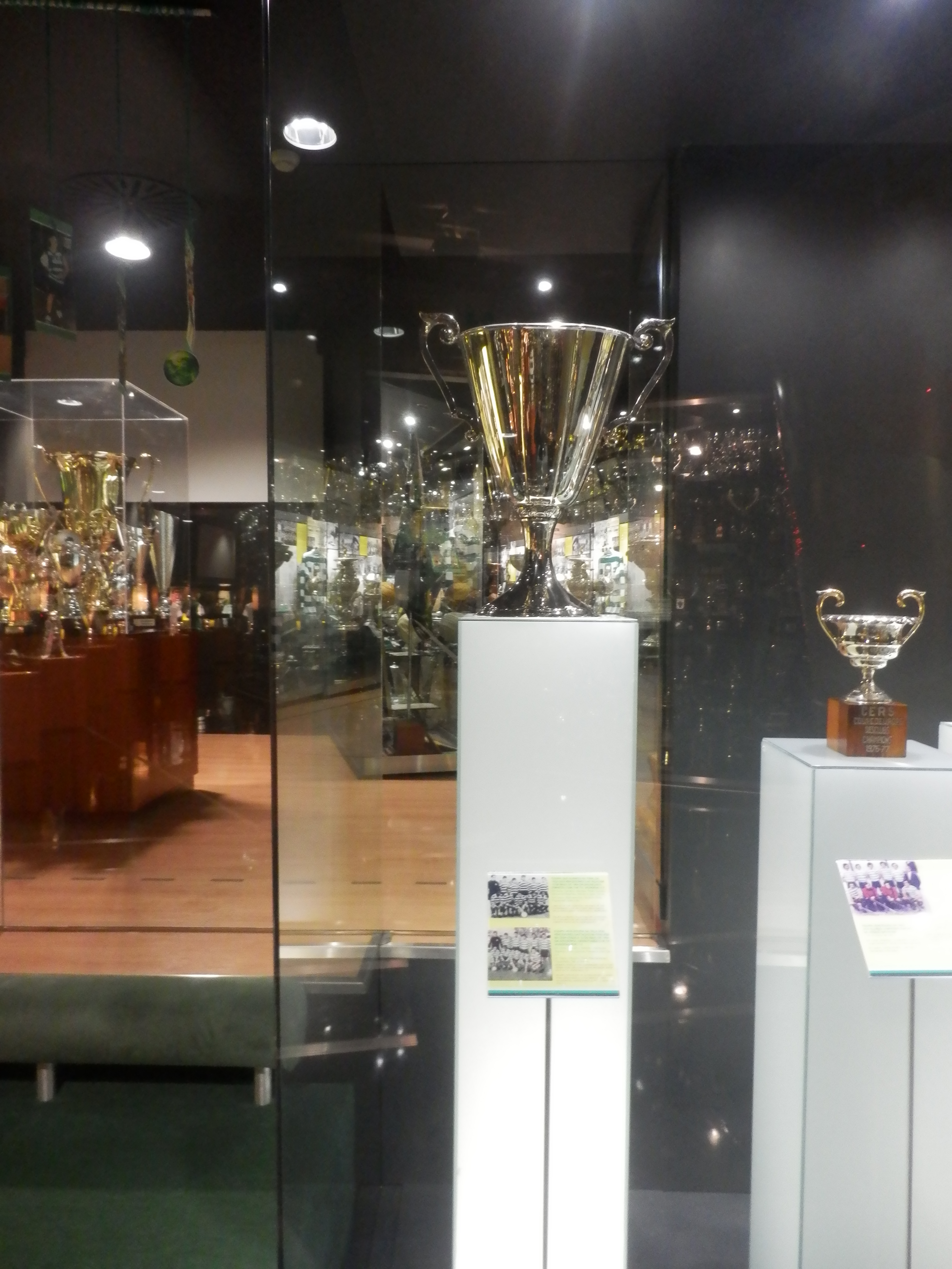 The 1963–64 European Cup Winners' Cup won by Sporting